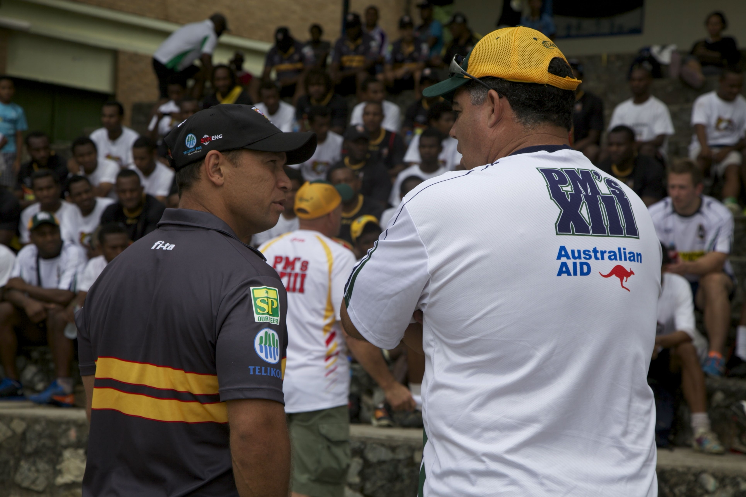 PM’s 13 Coaching Clinics: This year’s Prime Minister’s 13 again saw the Kangaroos and Kumuls promoting positive change in PNG communities. Some of their messages included stopping violence against women, living health and staying in school. Pictured are Kumuls and Kangaroos Coaches, Adrian Lam and Mal Meninga just before a pep talk and a coaching clinic for school boy rugby. Photo: AusAID